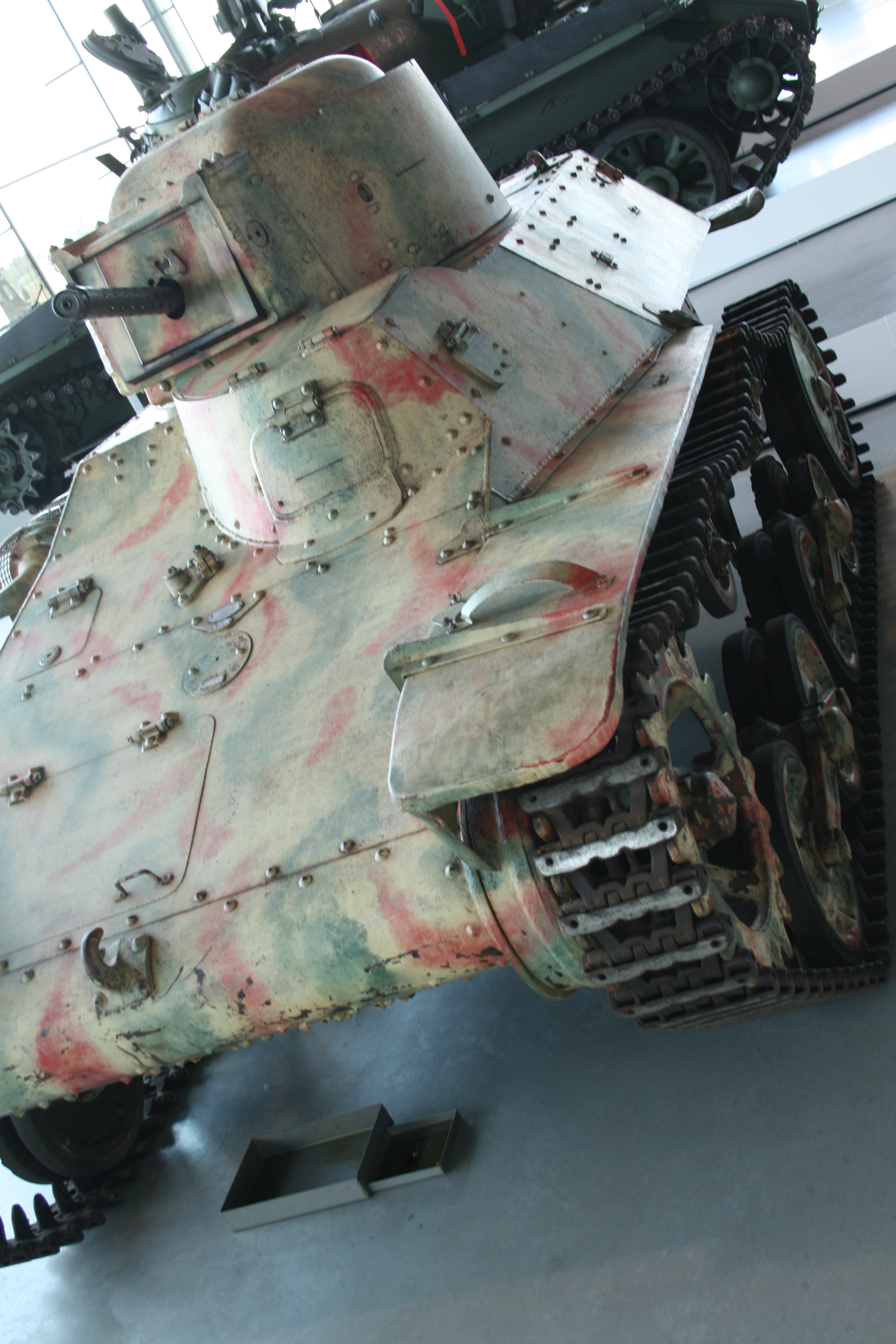 This tank was left behind by the Japanese army in Indonesia. Dutch troops subsequently seized it from Indonesian forces. Camouflage was applied by the Indonesians.